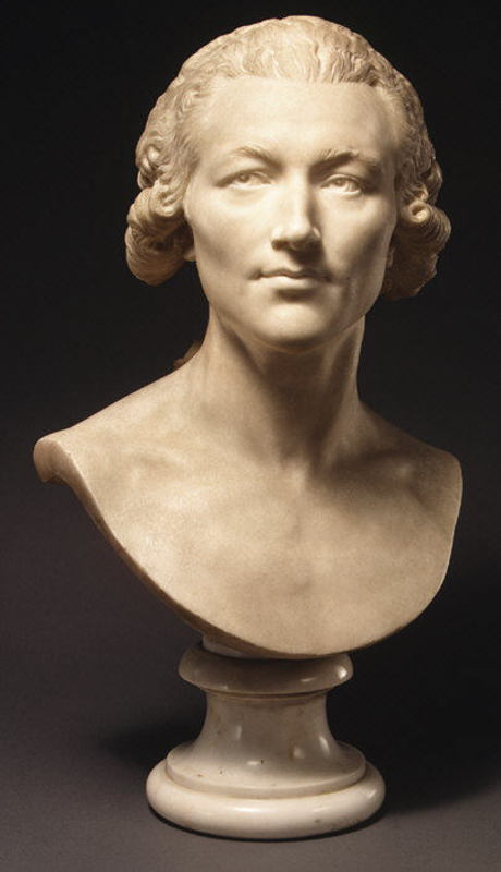 Bust of Philippe-Laurent Roland